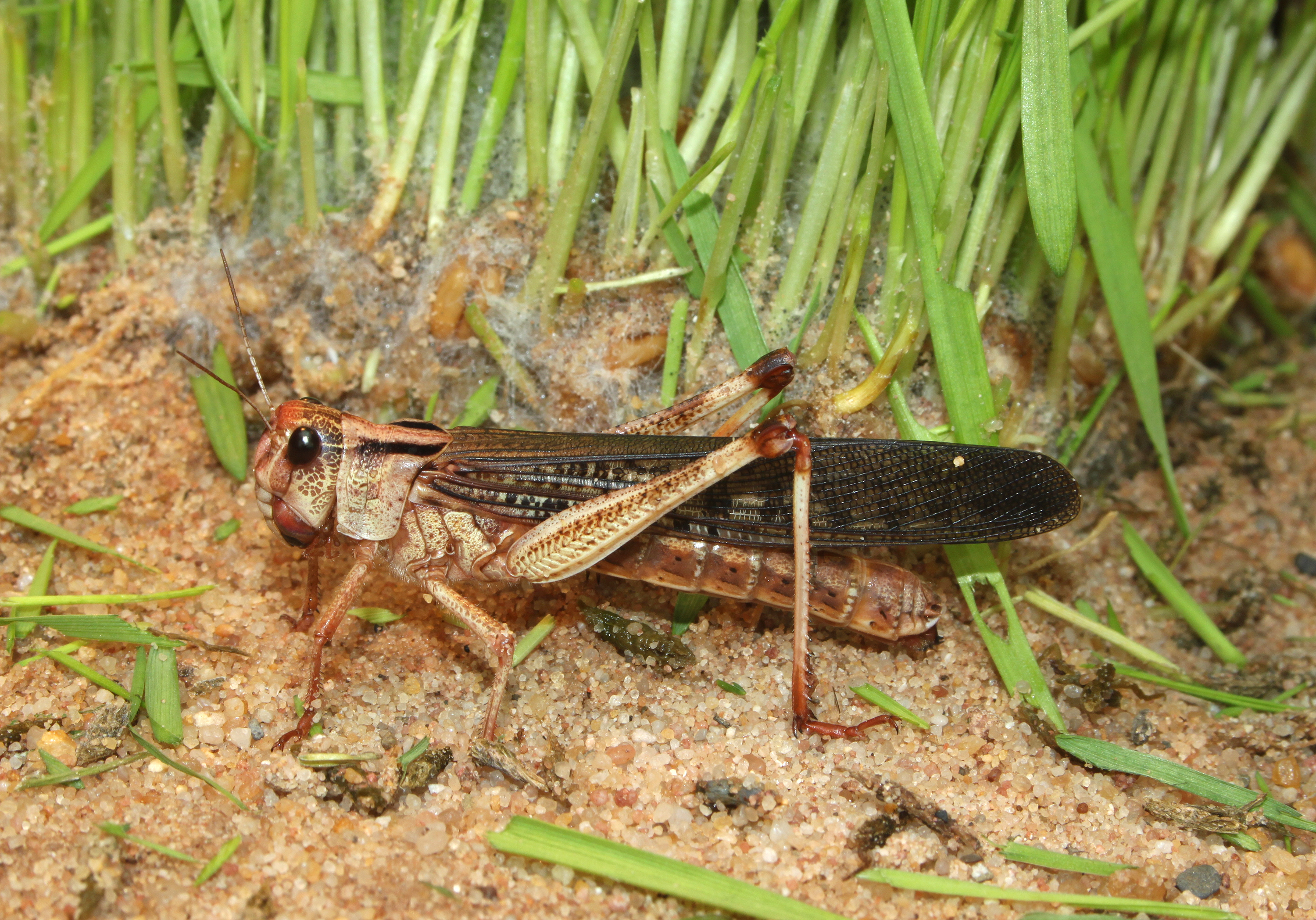 Migratory locust Locusta migratoria, Family: Acrididae, Location: Germany, Stuttgart, Zoological garden